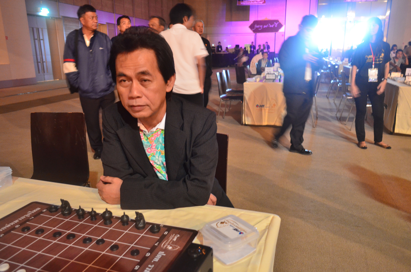 Suchart Chaivichit 3